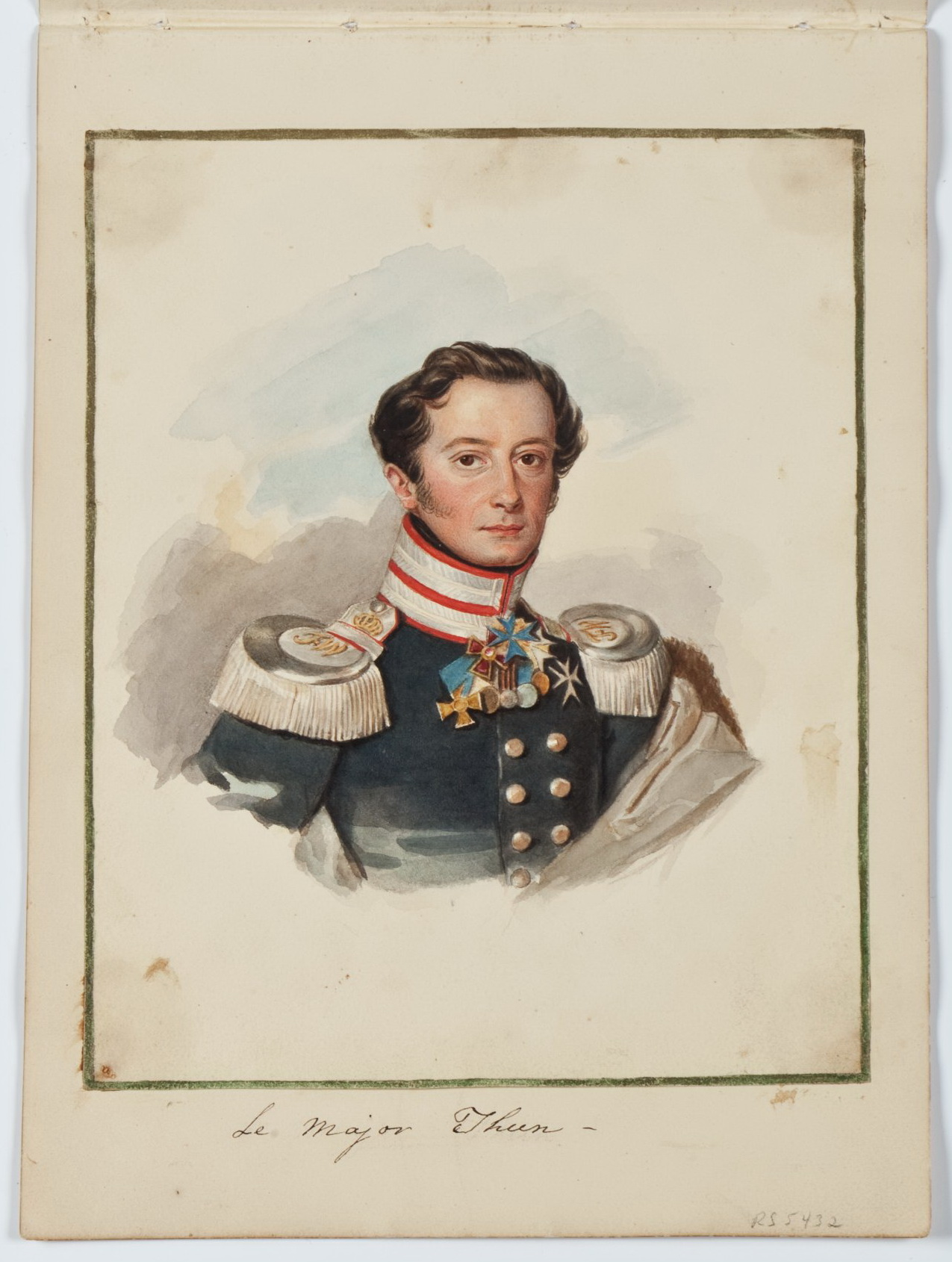 The Middleton Watercolor Album consists of a collection of 45 watercolor portraits bound in leather covers with neo-gothic embossing and a gilt bronze clasp in the same style. The album relates to the Middleton family of South Carolina, from which it descended until Hillwood purchased it in 2004. Williams Middleton—who was secretary to his father, Henry Middleton, the American minister to St. Petersburg from 1820 to 1830—assembled this album. The artist of many of the watercolors, most of which are unsigned, is likely Middleton's sister, Maria Henrietta, who studied painting during her years in St. Petersburg with her governess, Madame Mathes, who also painted miniatures. Two watercolors, including this portrait of the Countess Bobrinsky, are signed by the well-known Russian watercolorist Petr Sokolov. The portraits are of Russians and people in the foreign community who were close associates of the Middleton family. Their portraits provide an extraordinary commentary on the fashion and hairstyles of the 1820s.